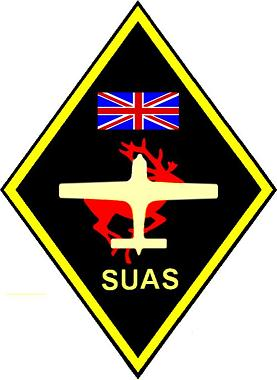 SUAS Diamond Badge Tattoo Sticker Solo